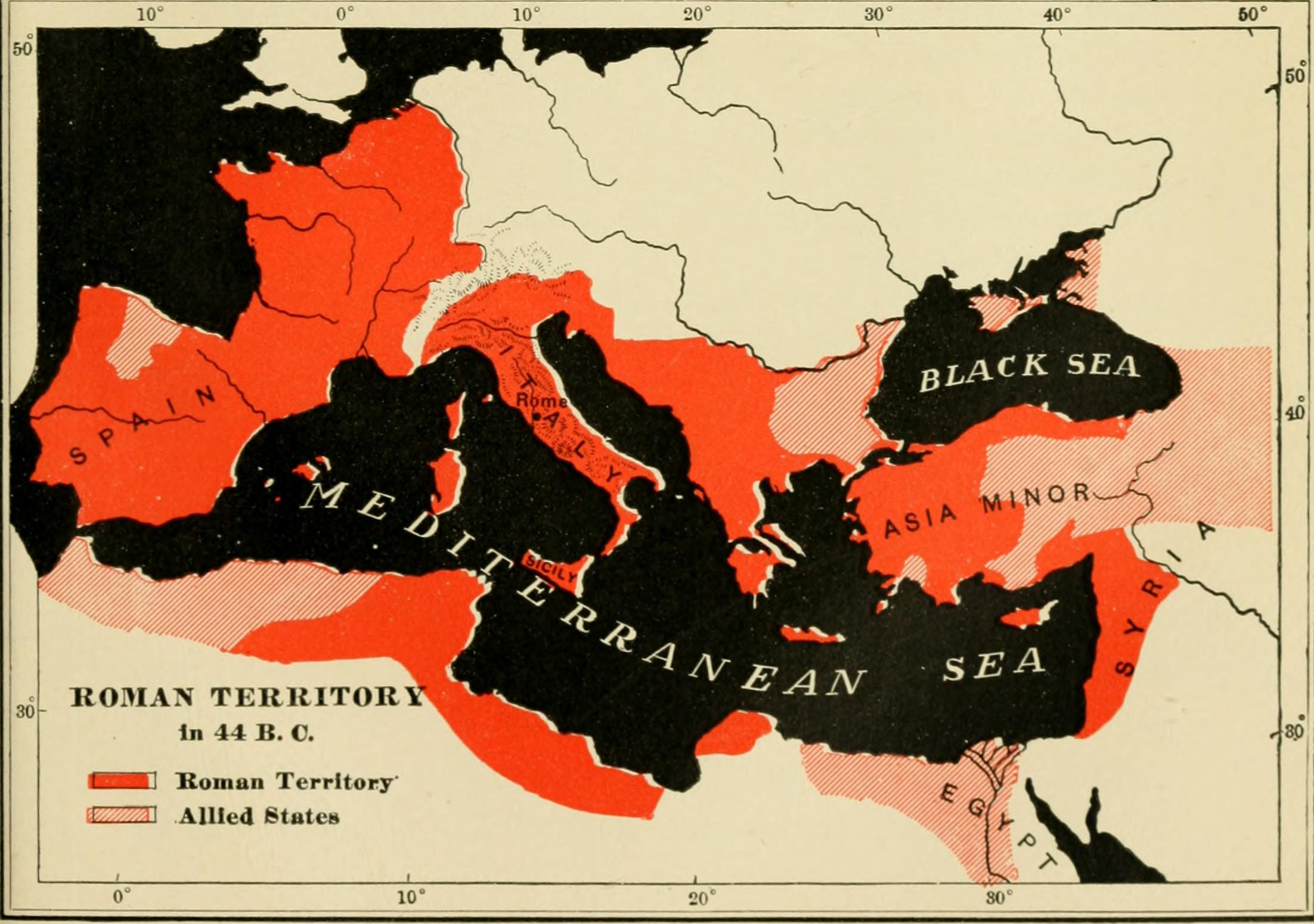 Title: A history of the ancient world, for high schools and academies Year: 1904 (1900s) Authors: Goodspeed, George Stephen, 1860-1905 Subjects: History, Ancient Publisher: New York, C. Scribner's Sons Text Appearing Before Image: ' Text Appearing After Image: Survey of the New Period 357 the Roman coins of this age and compare them with the Greekcoins of Plate XV. (See Appendix II.) SUBJECTS FOR WRITTEN PAPERS. 1. The Roman Magis-trate—His Position, Powers and Duties. Abbott, pp. 150-173. 2. The iCdile—His Powers and Duties. Abbott, pp. 202-206. 3. The City of Rome down to 44 b.c. Merivale, ch. 78. 4. TheRoman Senate—its Position, Powers and Duties. Abl)ott, pp.220-243; Fowler, City State, ch. 8. 5. Romes Treatment ofSpain as Illustrative of its Dealing with Conquered Peoples.How and Leigh, pp. 240-245, 464-466; Shuckburgh, pp. 458-463, 538-545. 6. Roman Slavery as Testified to by the Ro-mans Themselves. Sources in Munro, pp. 179-192. 7. TheCarthaginian Empire. Mommsen, History of Rome,Vol. II, Bk.3,ch. I. 8. Roman Roads. Dictionaries of Antiquities, articlesVia, or Roads; Guhl and Koner, pp. 341-344; Johnston, pp.282-287. 9. The Story of Terences Phormio as Illustrativeof Roman Comedy. Laing, pp. 4-62. 10. How was Justice Ad-ministe